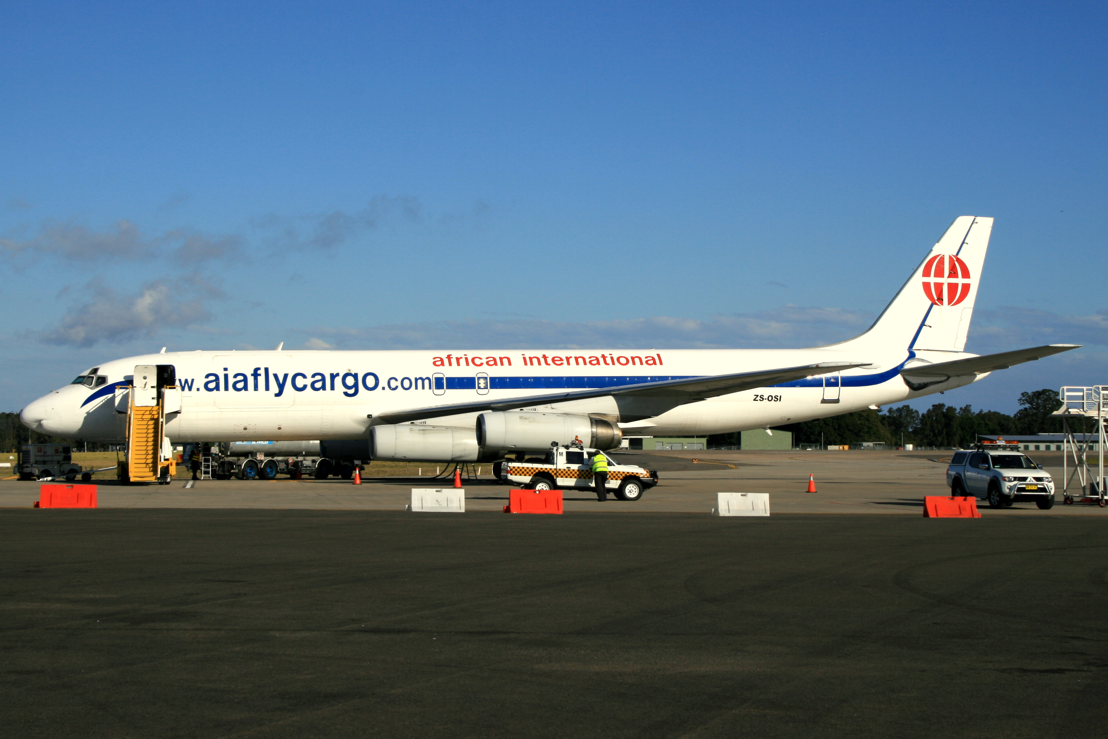 A Douglas DC-8-62 freighter of African International Airways is serviced at Sydney Airport in Australia.